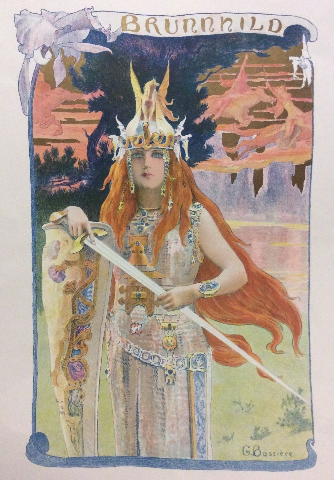 Brynhild (Nibelungen), cropped from an old postcard